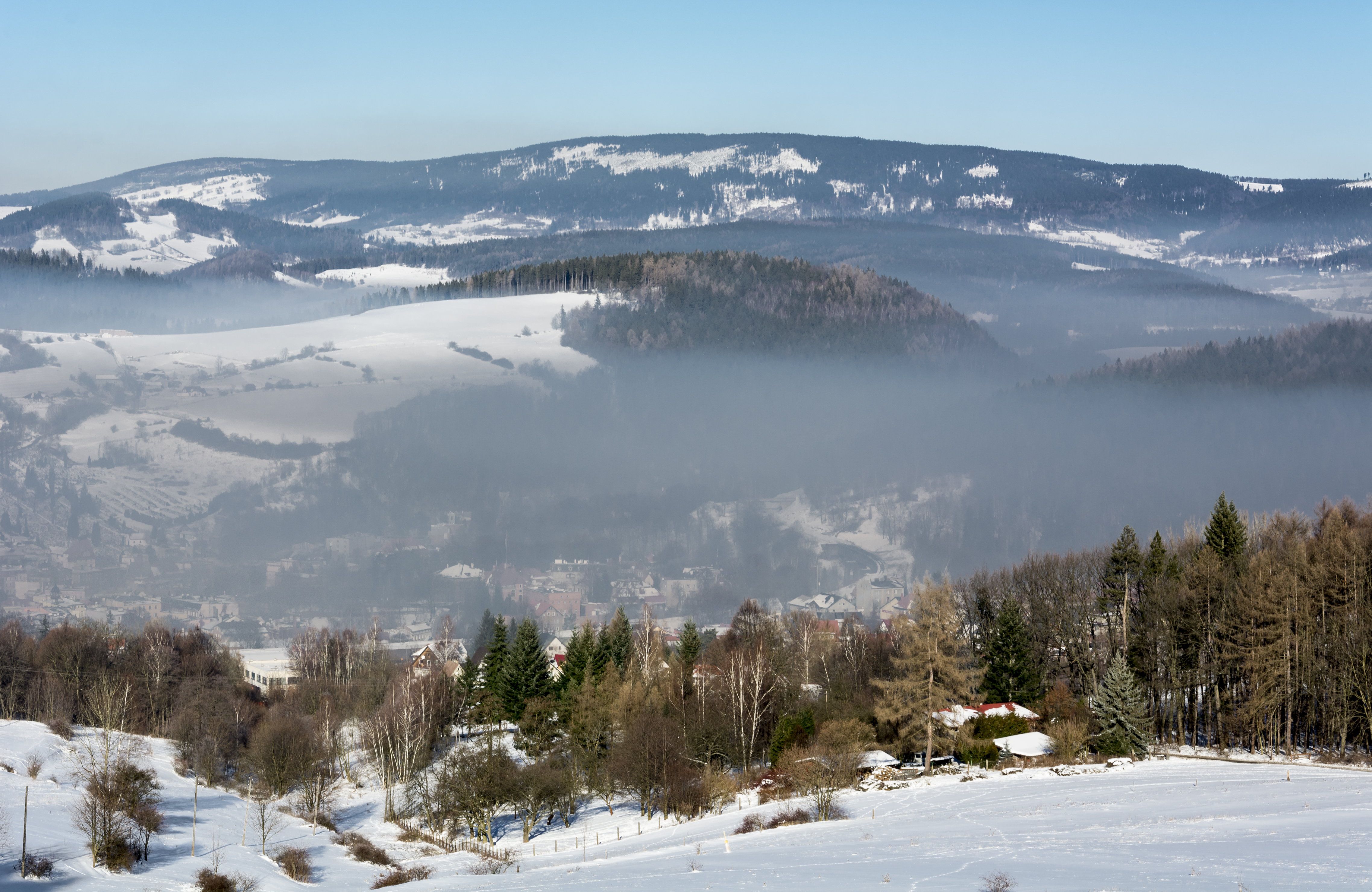 Smog over Nowa Ruda